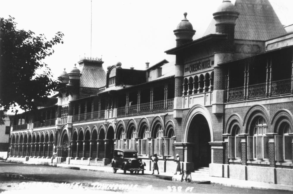 Queens Hotel in Townsville, ca. 1932.